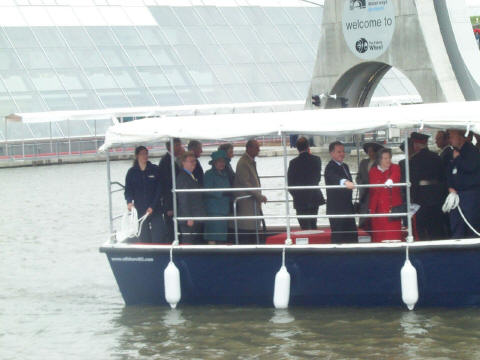 The official opening of the Falkirk Wheel on Friday 24th May 2002. Queen Elizabeth II (in the green coat and hat) tours the site with The Duke of Edinburgh visible behind in a light raincoat. The First Minister, Jack McConnell, can be seen with his hand on the rail.